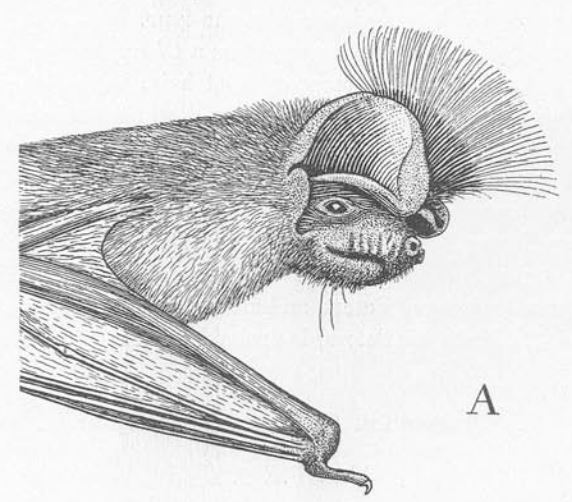 Chapin's free-tailed bat, Chaerephon chapini, male with inter-aural crest